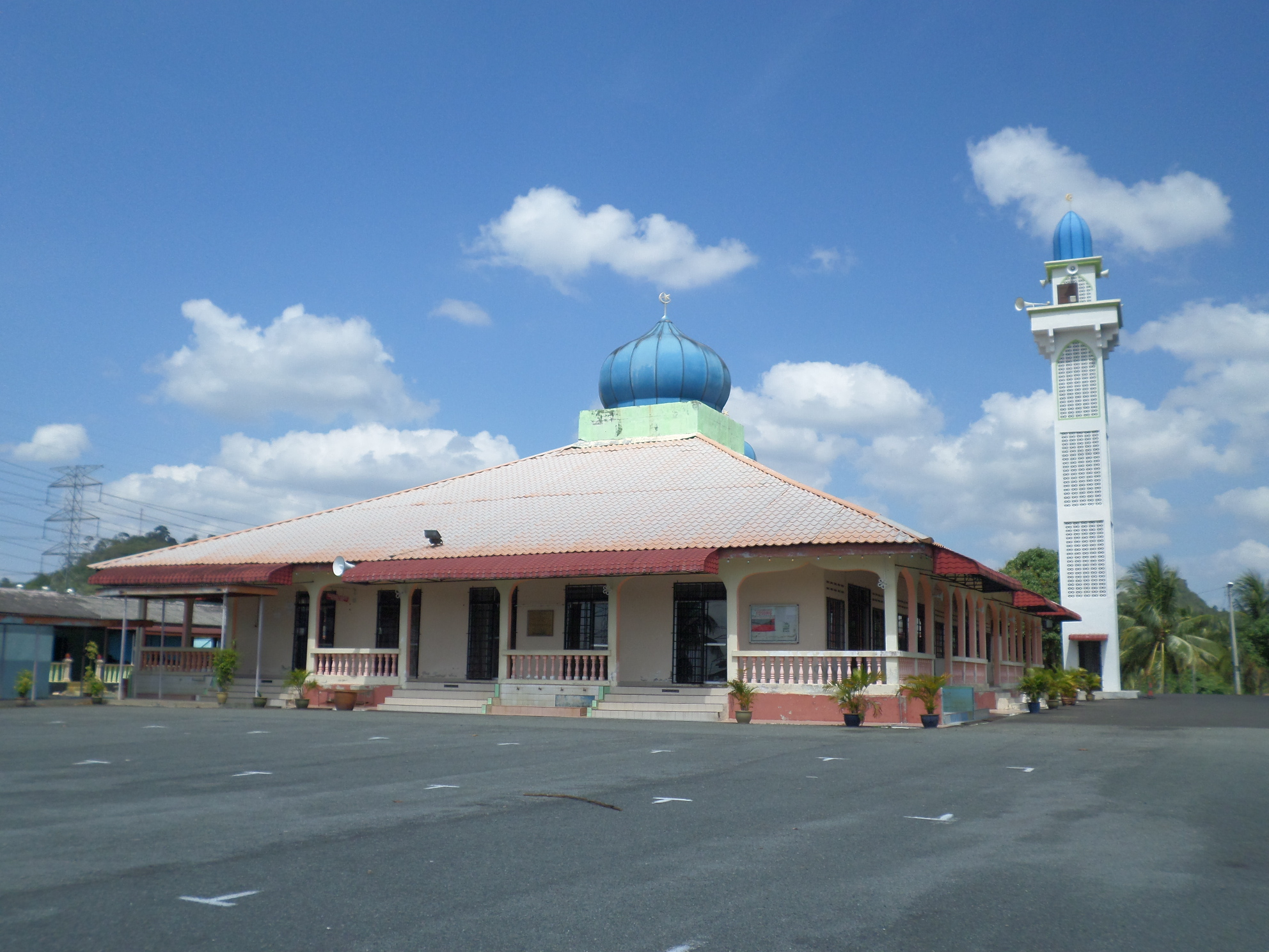 Al-Ehsan Mosque, Sentosa Village, Maran, Pahang, Malaysia